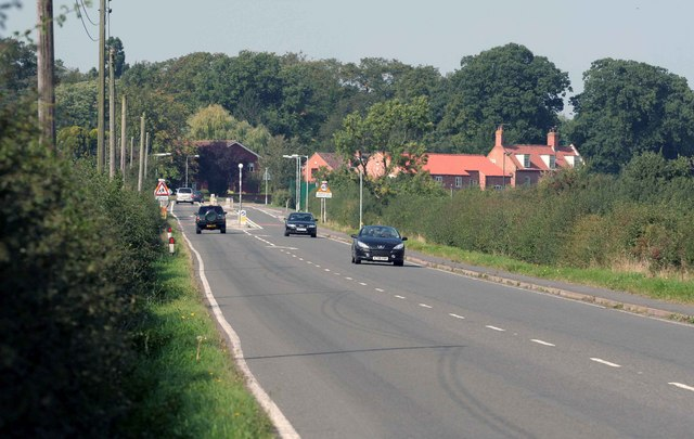 Sunday afternoon drivers Traffic seen leaving gamston heading for Markham Moor